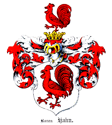 Coat of arms of the family von Hahn in Ösel